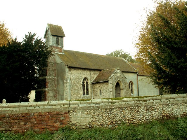 Church of St Mary in Battisford, Suffolk, England. A Grade I listed medieval church.